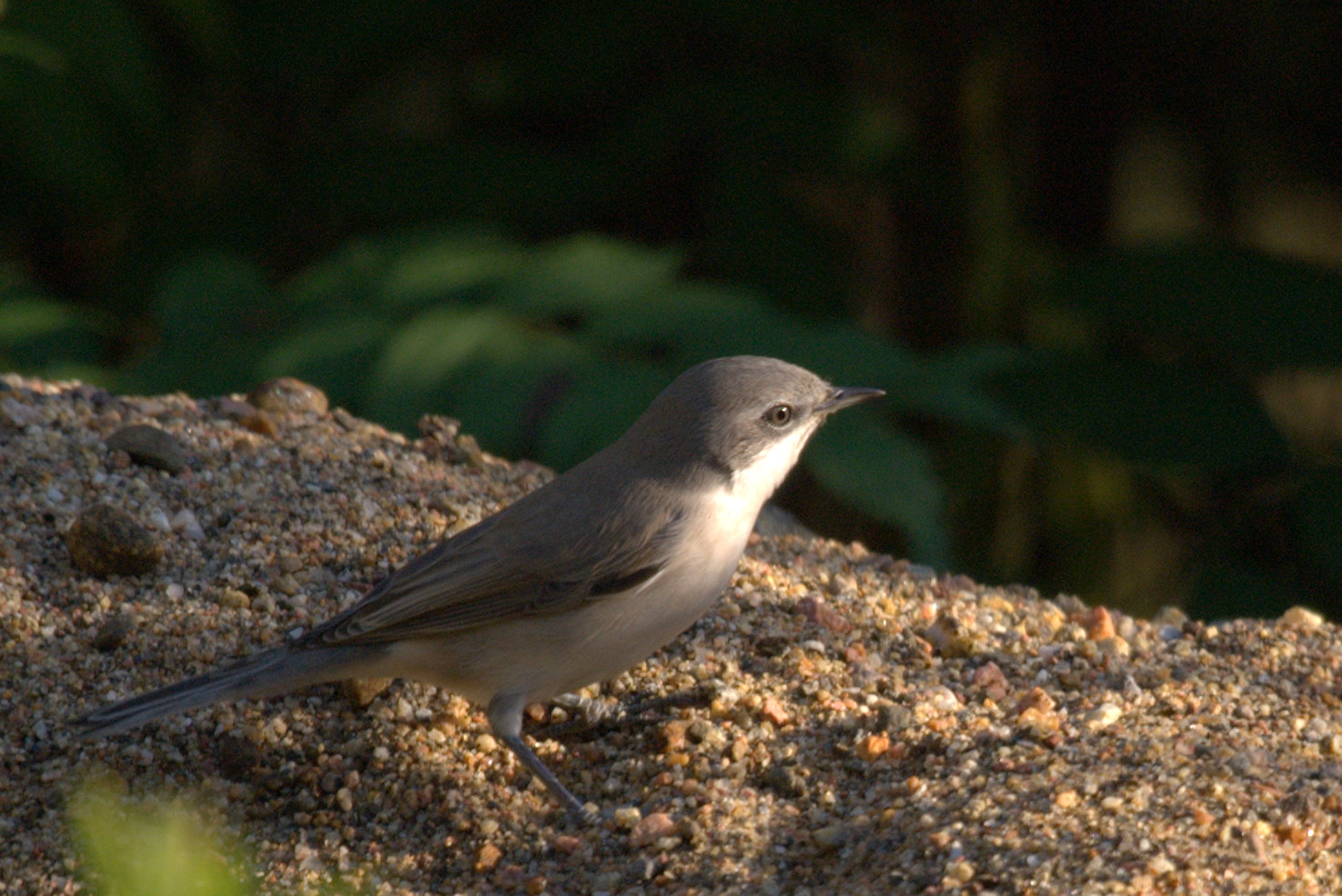 A lesser whitethroat (Sylvia curruca) in Luopioinen, Pälkäne, Finland.